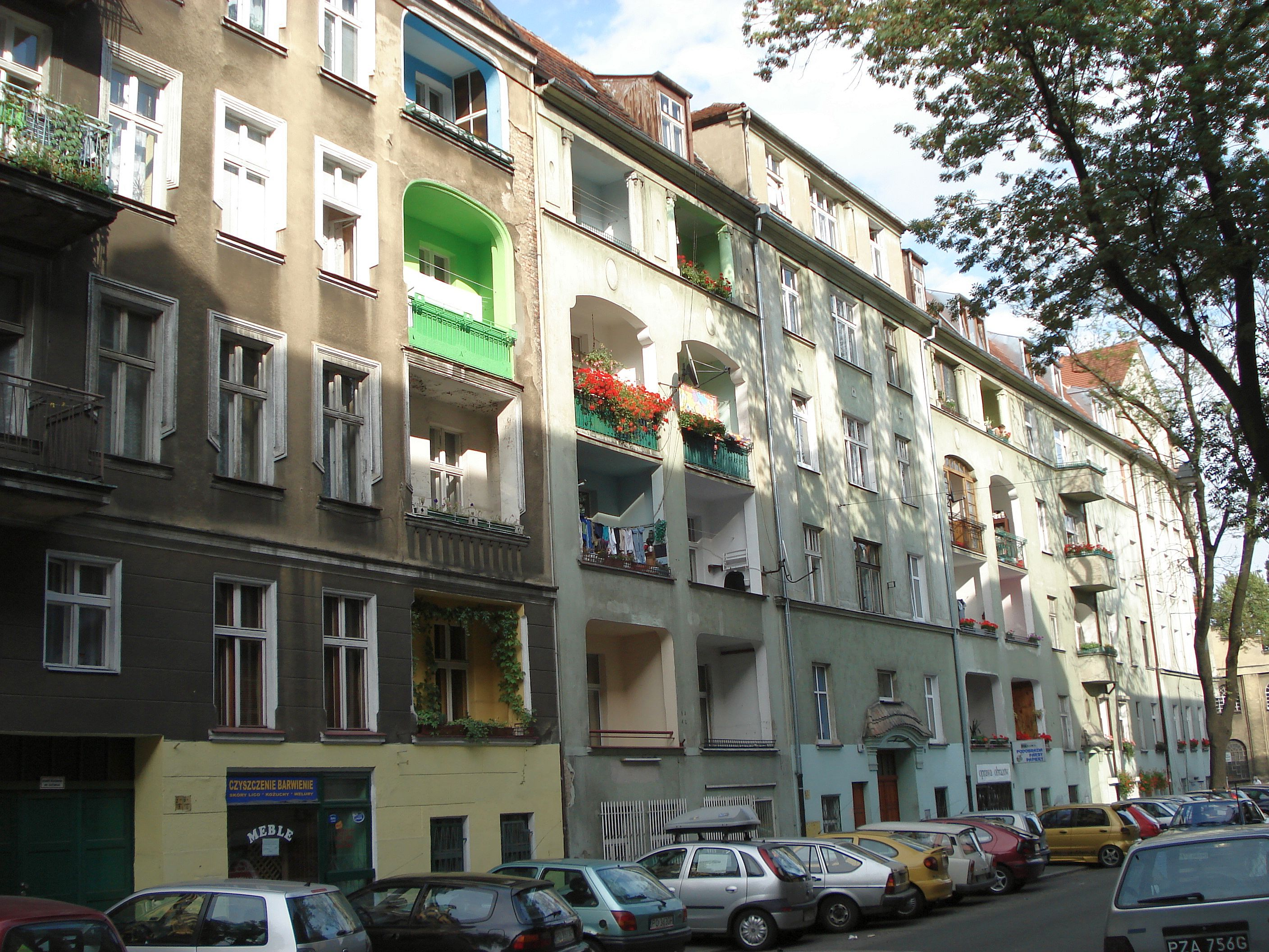 House no. 8-9, Kanałowa Street in Poznań